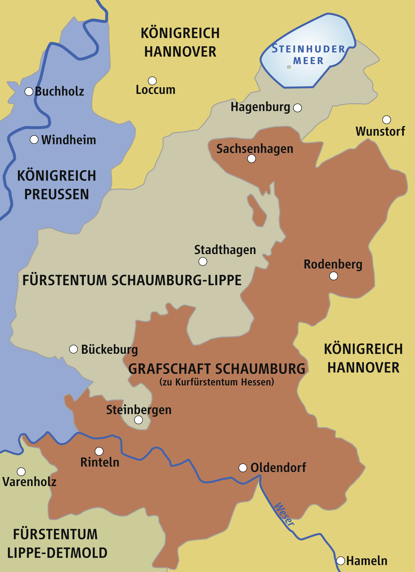 The Countships of Schaumburg, 1866